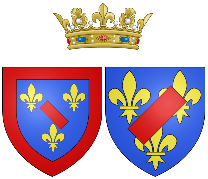 Arms of Marie Anne de Bourbon, Légitimée de France as Princess of Conti